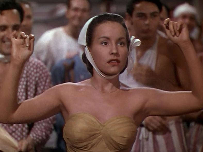 Carol Thurston in The Story of Dr. Wassell - trailer (cropped screenshot)